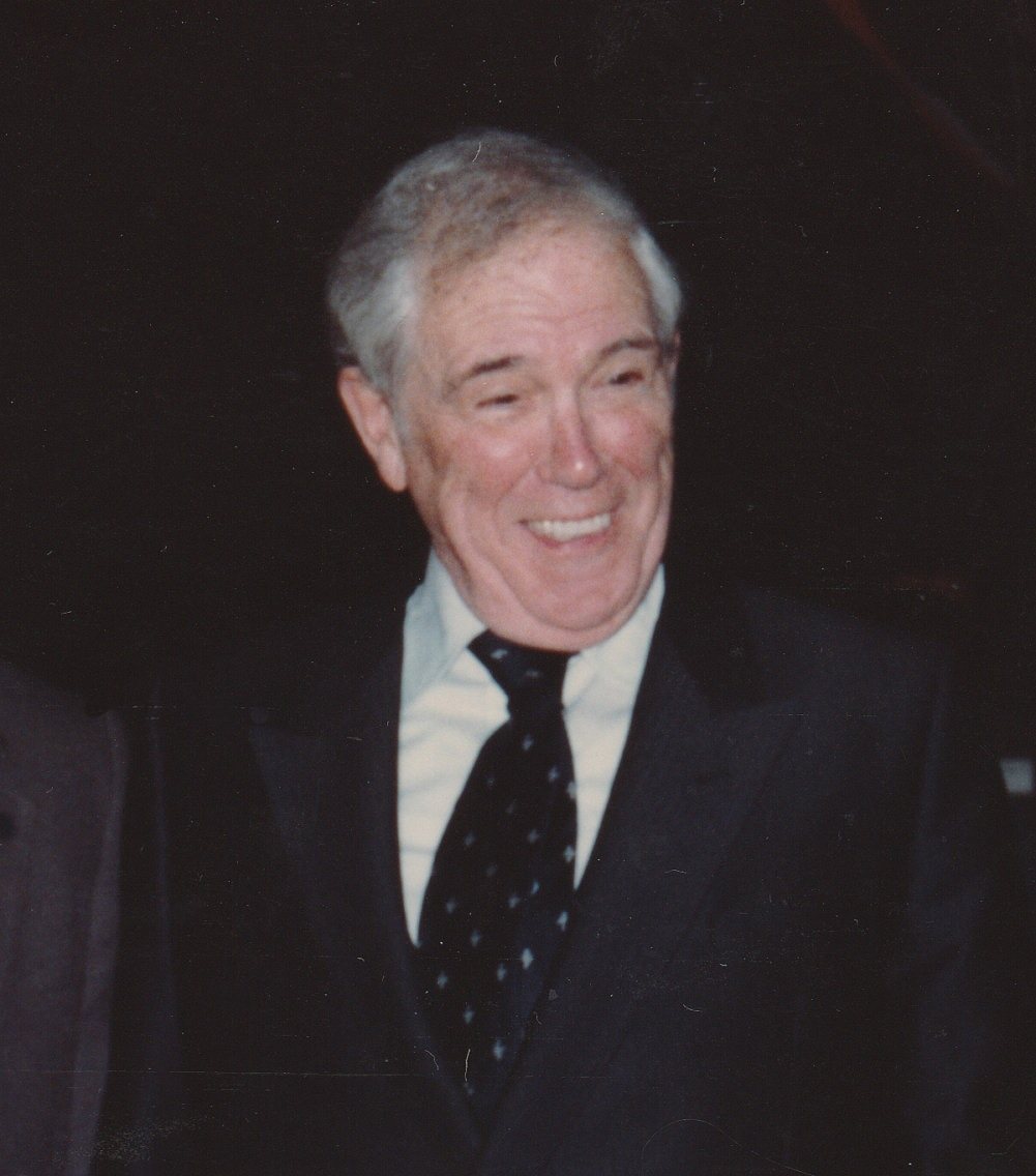 Douglas Fraser, ca. 1981